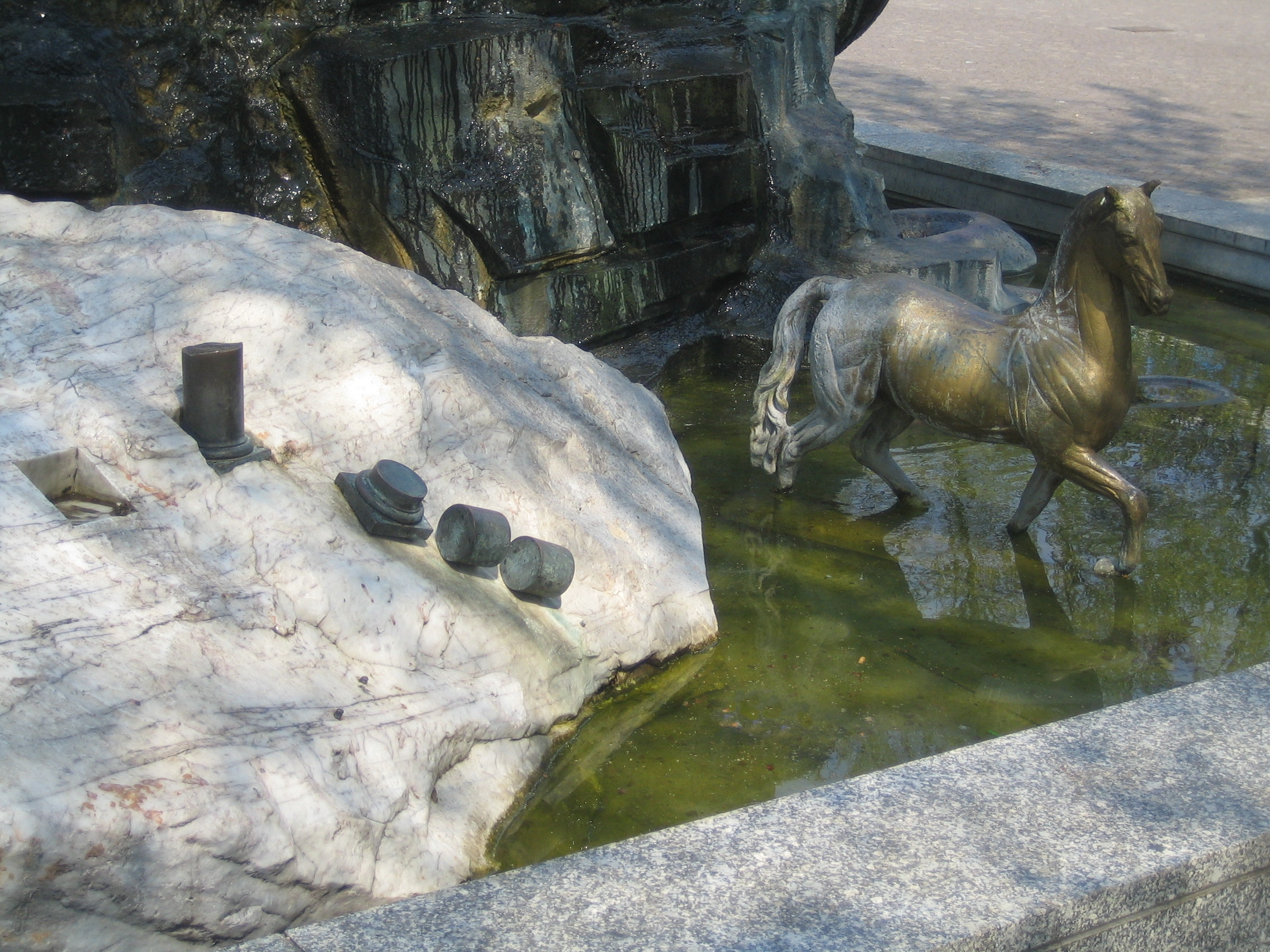 Fountain at Henriettenplatz in Berlin-Charlottenburg (Germany). Theme: The head of Medusa (Caput medusae). Detail of the backside.